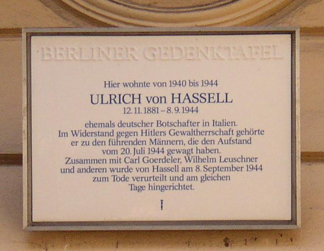 Berlin memorial plaque for Ulrich von Hassell in Berlin-Charlottenburg, Germany over the portal at 28 Fasanenenstraße.